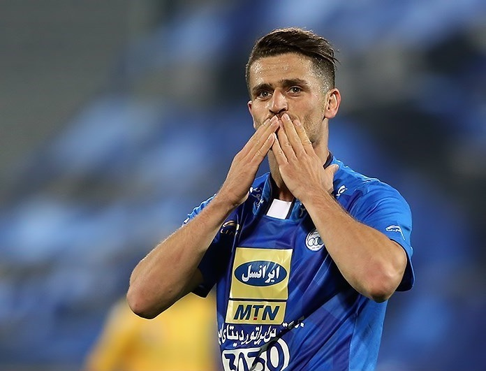 Vouria Ghafouri